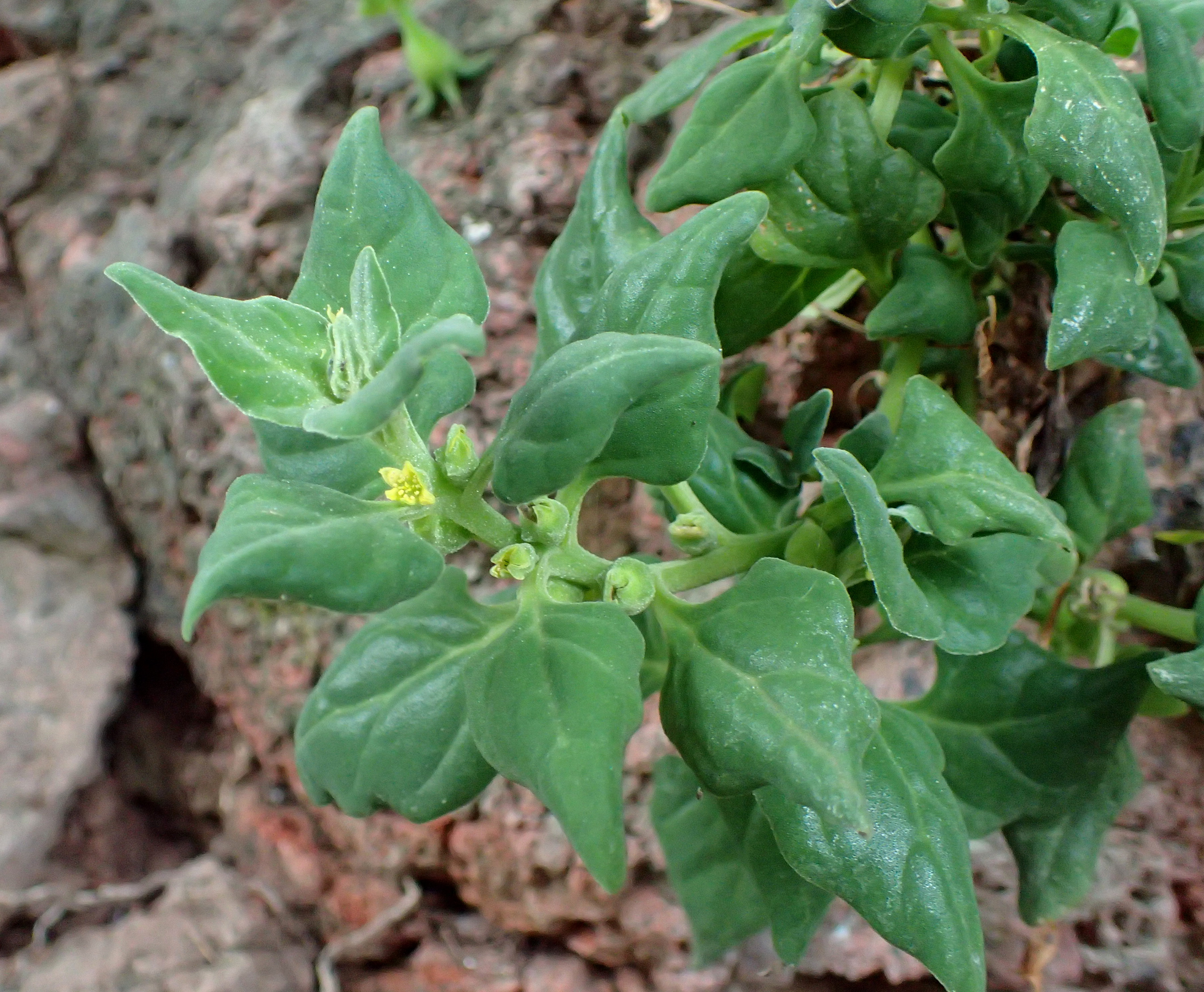 Tetragonia tetragonioides in Anaga, Tenerife, Canary Islands